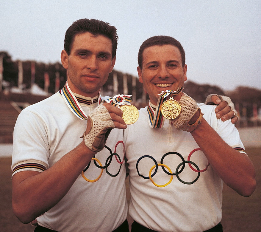 Sergio Bianchetto and Angelo Damiano at the Tokyo Olympics. Tokyo, October 1964